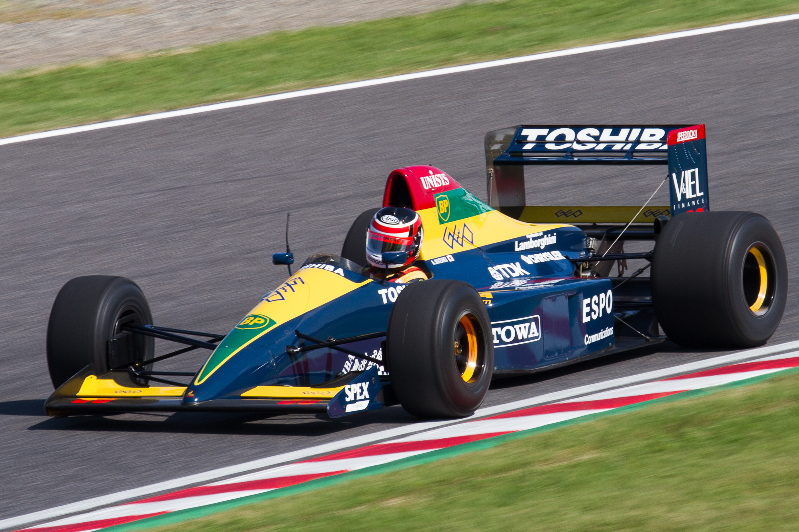 Formula One 2012 Rd.15 Japanese GP: Aguri Suzuki demonstrating the Larrousse-Lola LC90.